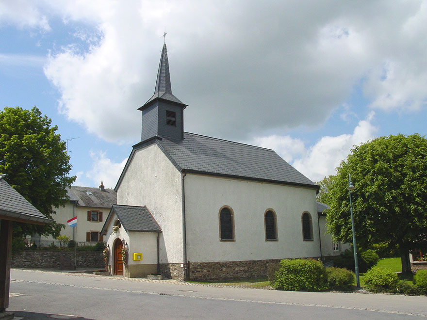 The church in Roder, Luxembourg. Photograph taken by David Edgar on 5th June 2006.